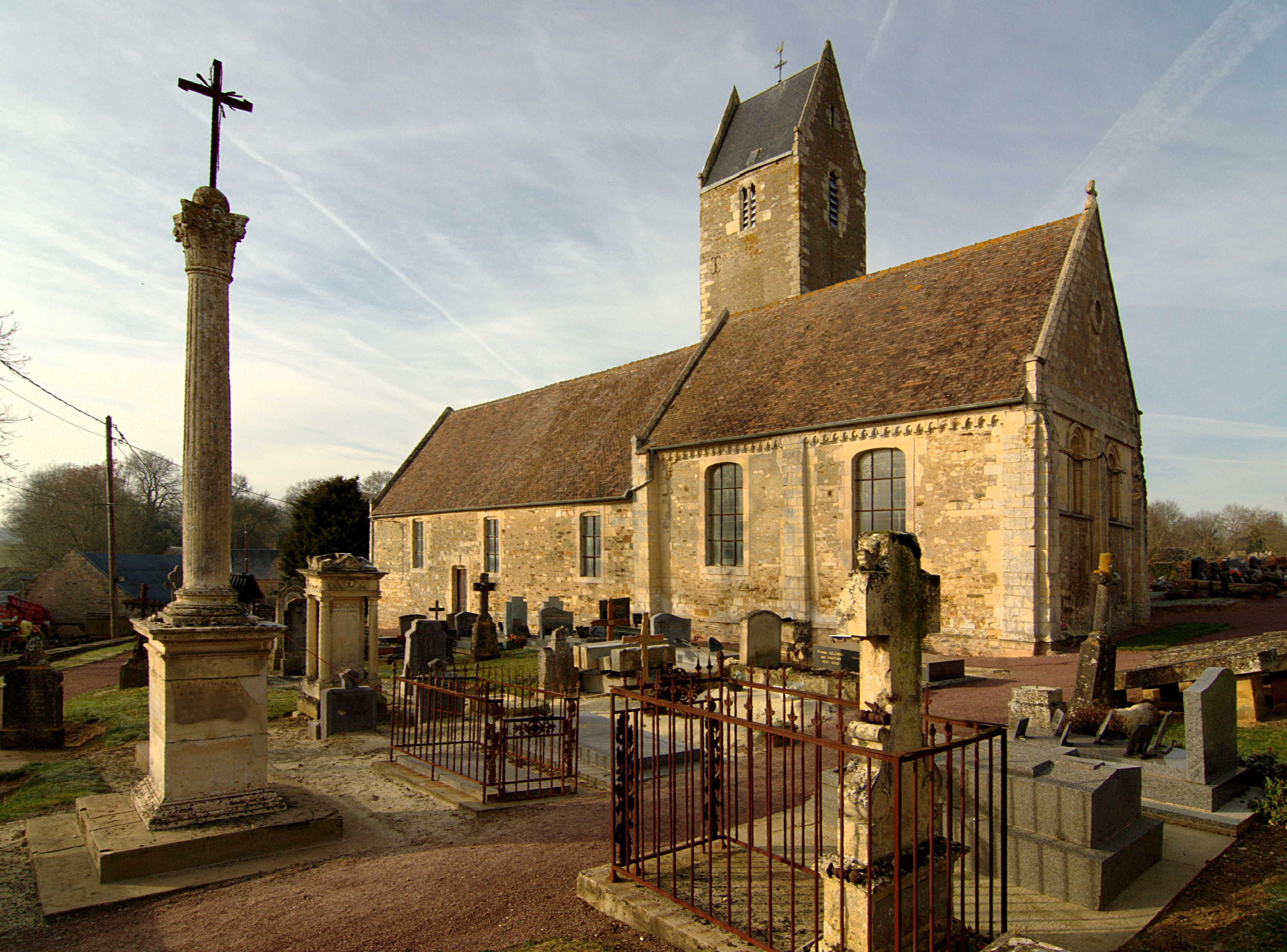 Maizet's church.